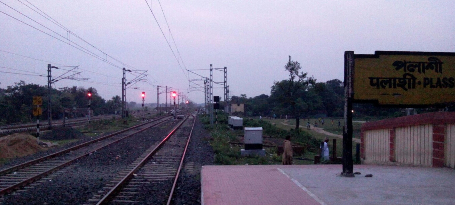 Plassey (Palashi) Railway station in Sealdah Division. Nadia